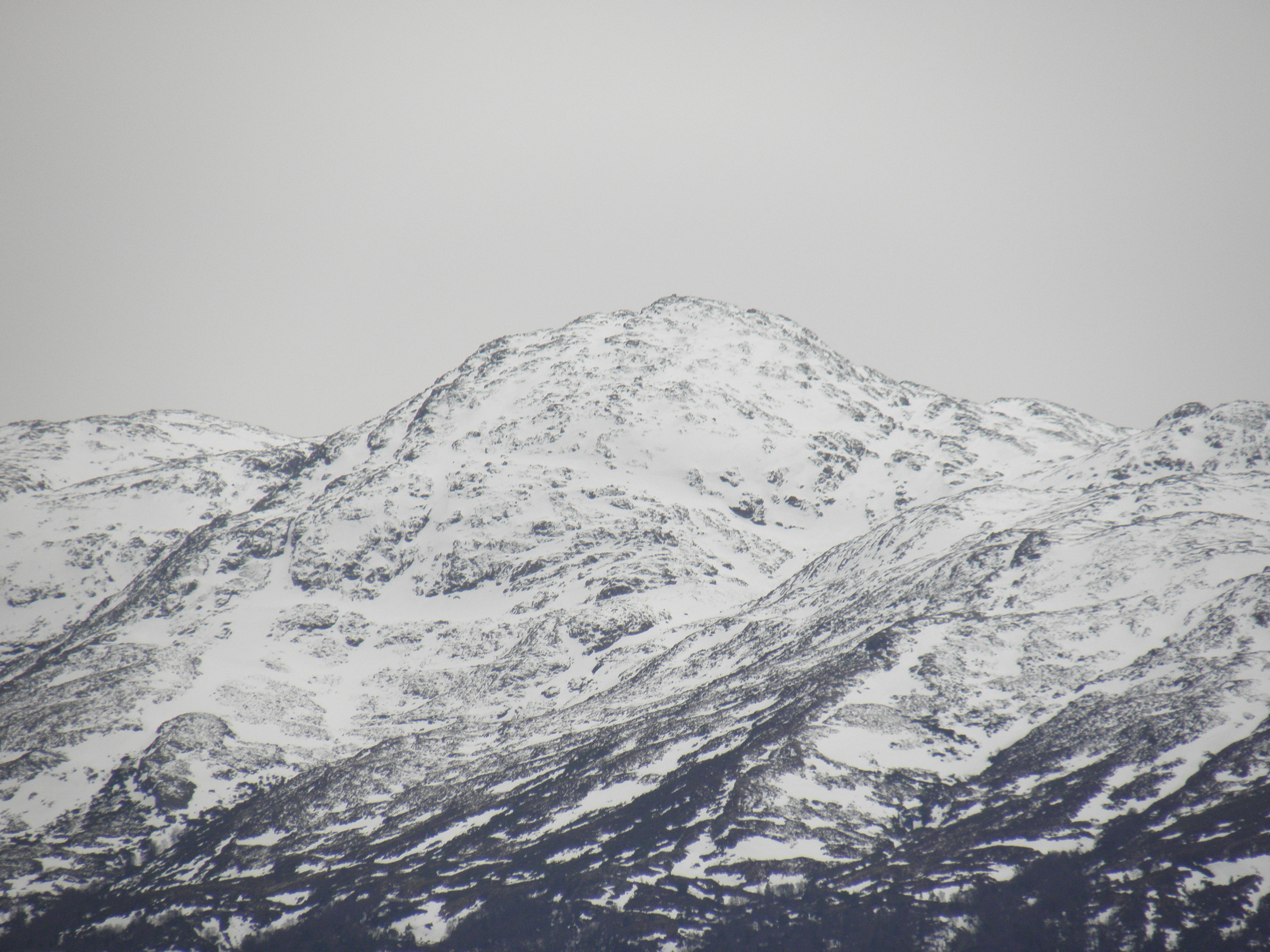 A view of the summit of Mehammarsåto, located in the municipality of Stord in Hordaland, Norway. The picture is taken from the municipality of Tysnes.